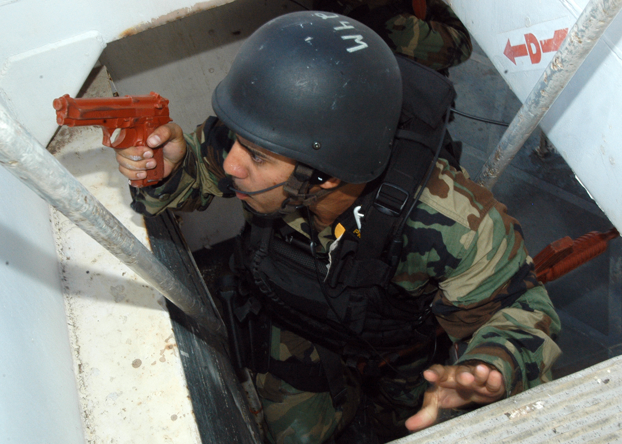 Pearl Harbor, Hawaii (Sept. 23, 2005) - A Sailor assigned to the guided missile cruiser USS Cowpens (CG 63) secures the ex-U.S. Coast Guard Cutter Yacona as part of a visit, board, search and seizure (VBSS) exercise taught by the Center for Anti-terrorism and Navy Security Forces Learning Site, Pearl Harbor. The simulation is part of a three-week training course in maritime anti-terrorism/force protection designed to realistically train Sailors on a variety of tactics and procedures. U.S. Navy photo by Journalist 3rd Class Ryan C. McGinley (RELEASED)